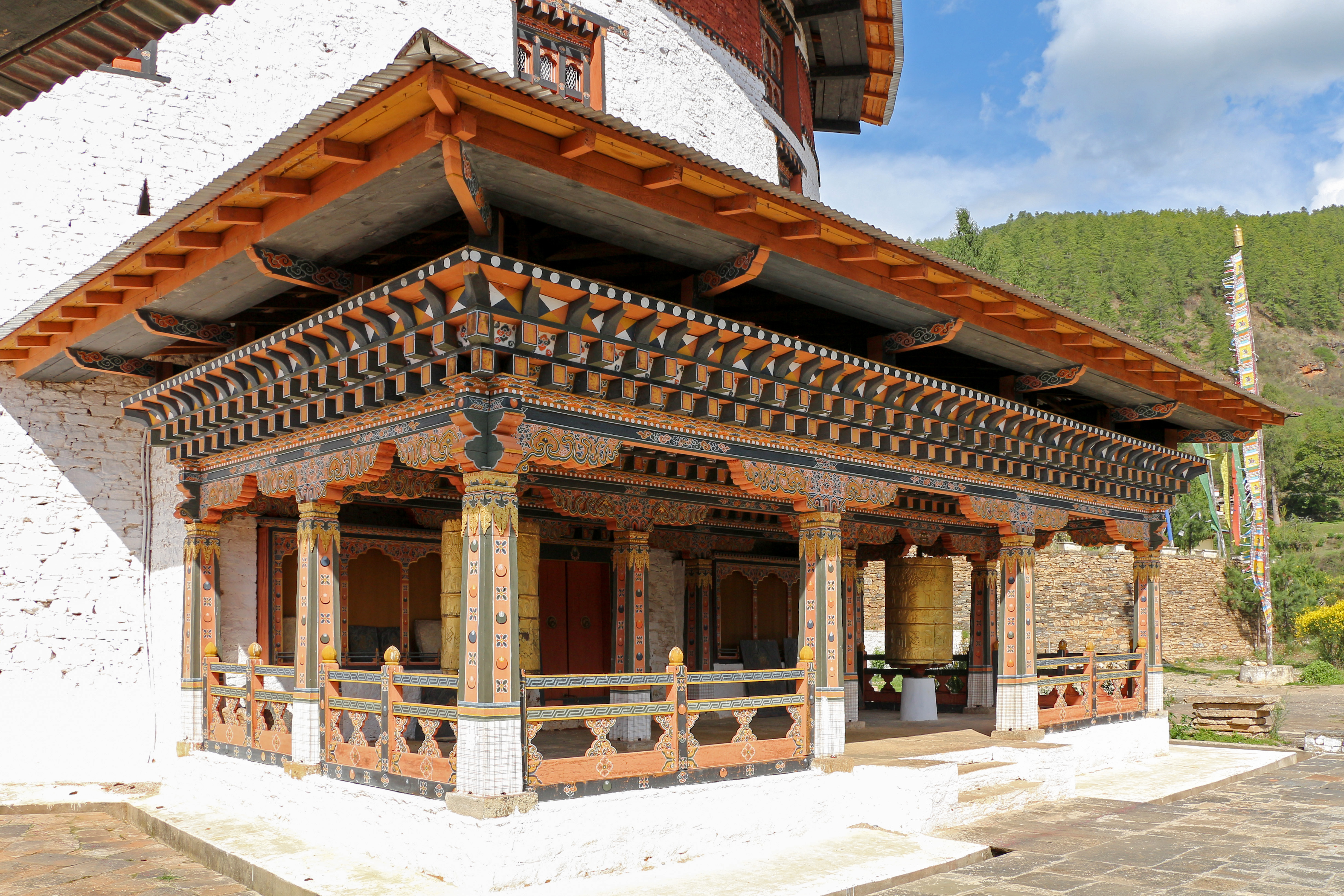 National Museum of Bhutan (former Ta Dzong), Paro, Bhutan